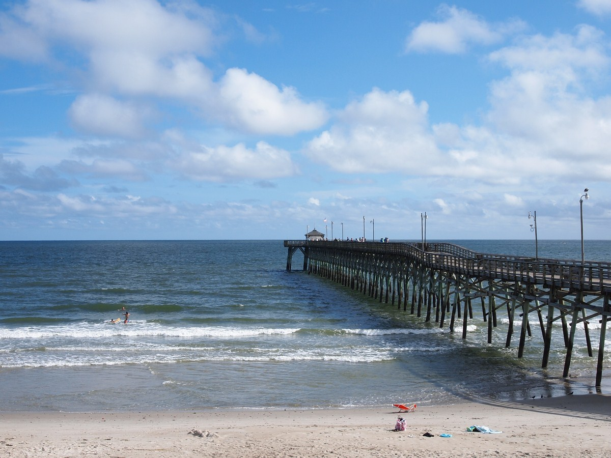 View looking seaward of the Ocean Crest Fishing Pier